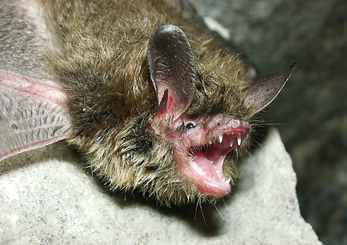 A northern long-eared bat in its hibernation habitat in southern Indiana. Credit:R. Andrew King/USFWS